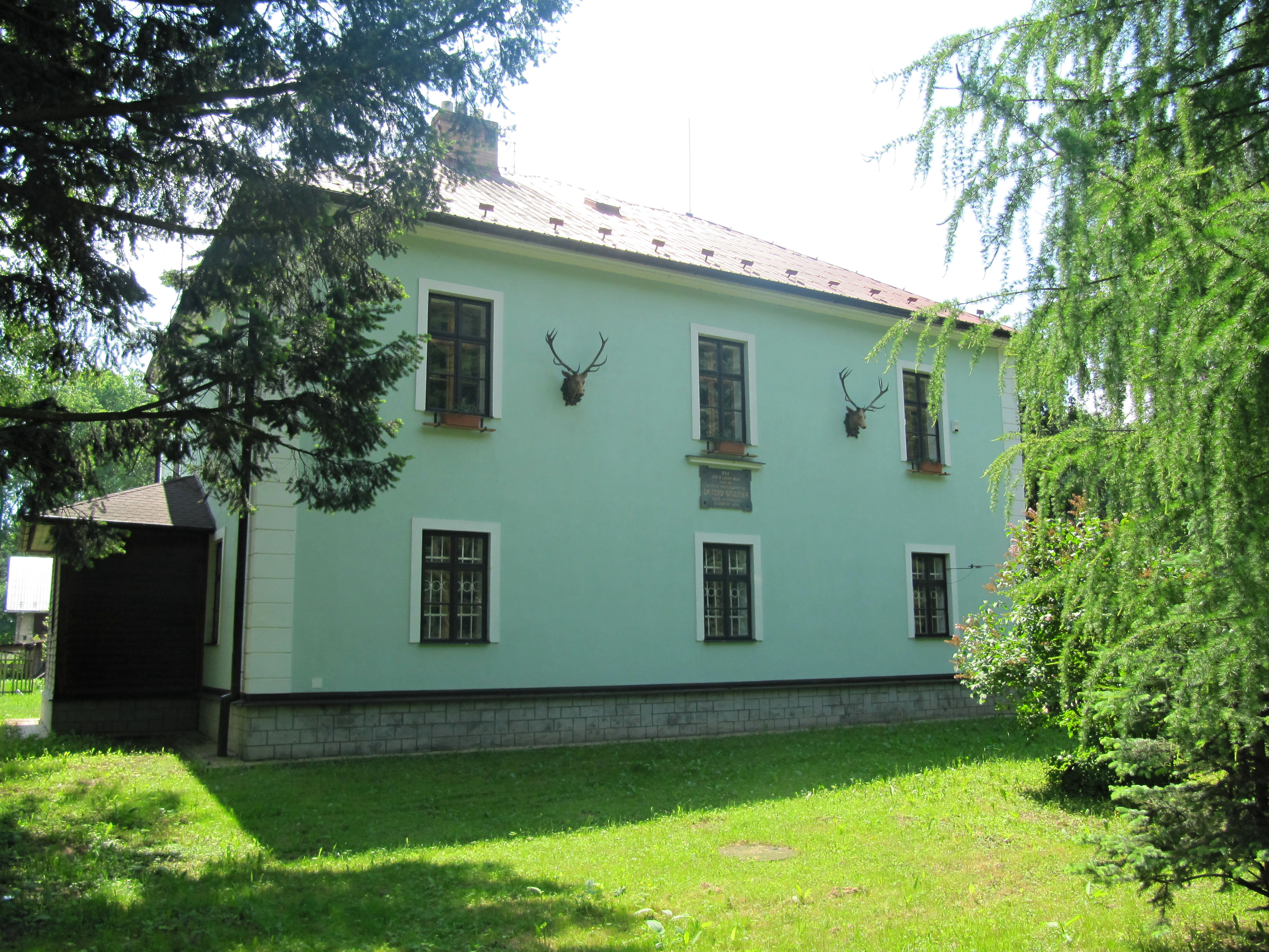 Kroměříž, Czech Republic. Zámeček, birthplace of Ferdinand Stoliczka.